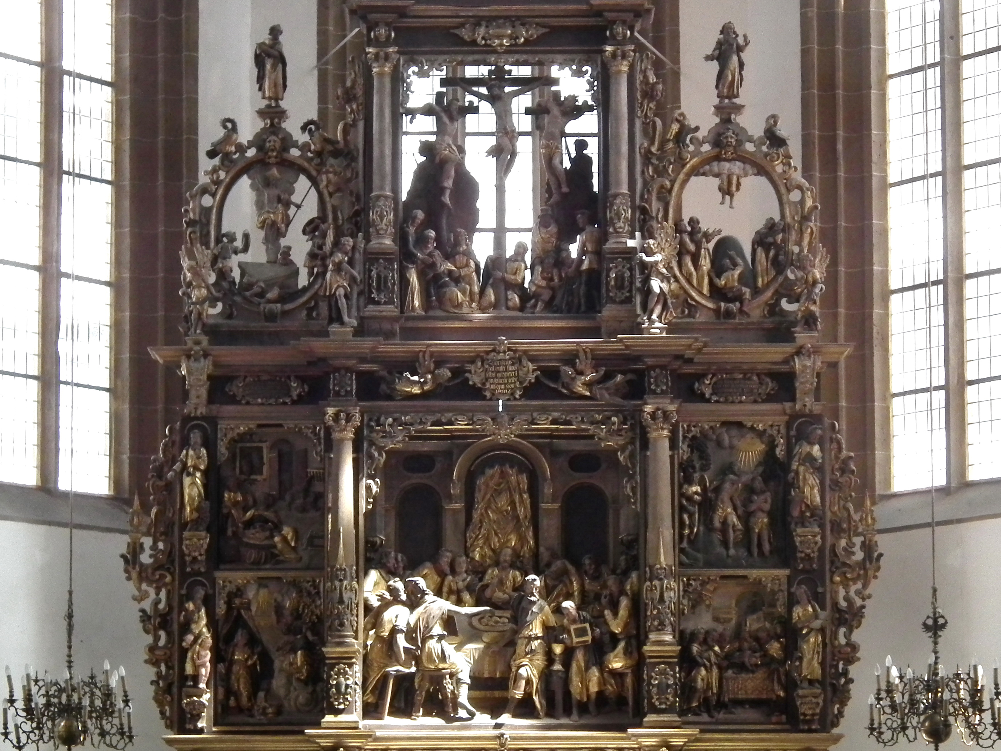 Detail on the main altar Kaufmannskirche Native nameKaufmannskircheLocationErfurt, GermanyCoordinates50° 58′ 41″ N, 11° 02′ 06″ E Authority control VIAF: 138607402 LCCN: n2009057986 GND: 4724038-6 WorldCat